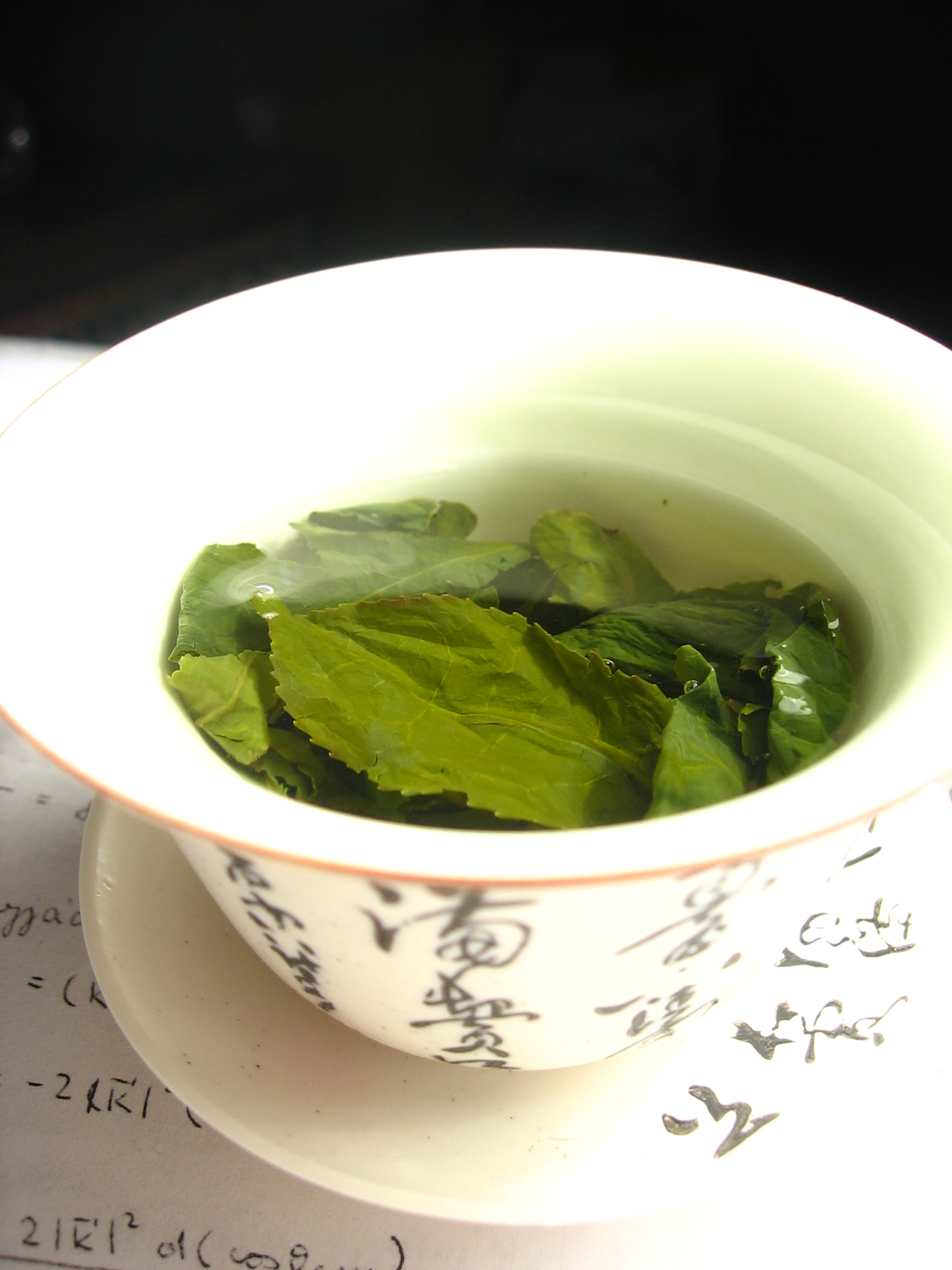 Oolong tea leaves steeping in an uncovered zhong (type of tea cup).